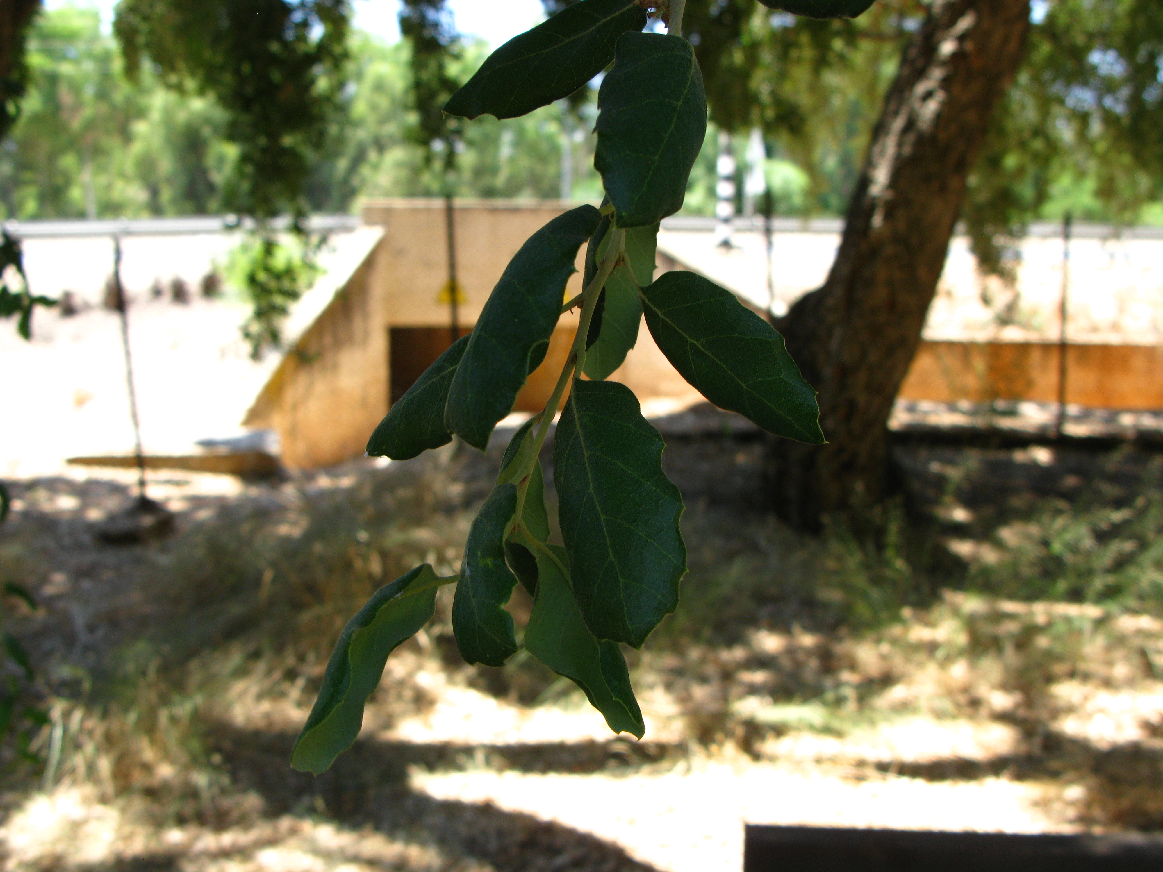 Cork oak in Israel leafs